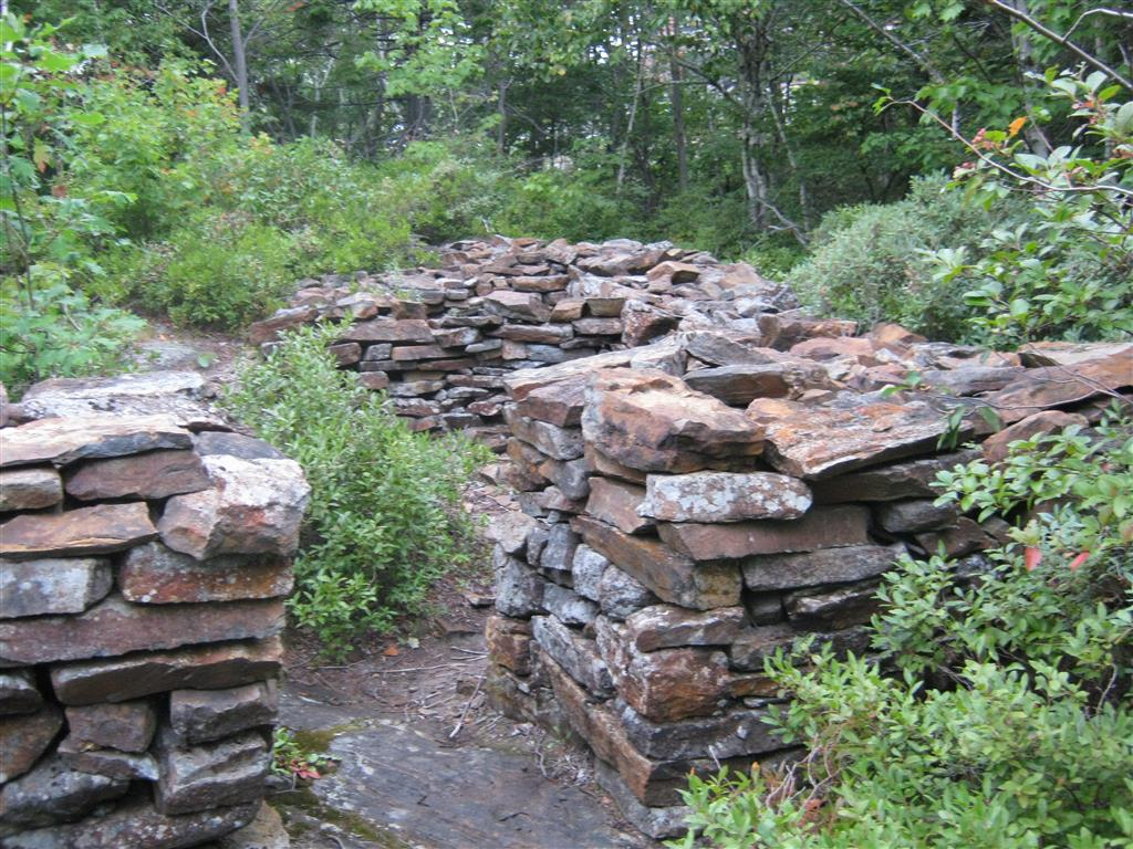 Image taken on September 6, 2016 in Bayer's Lake facing northwest.